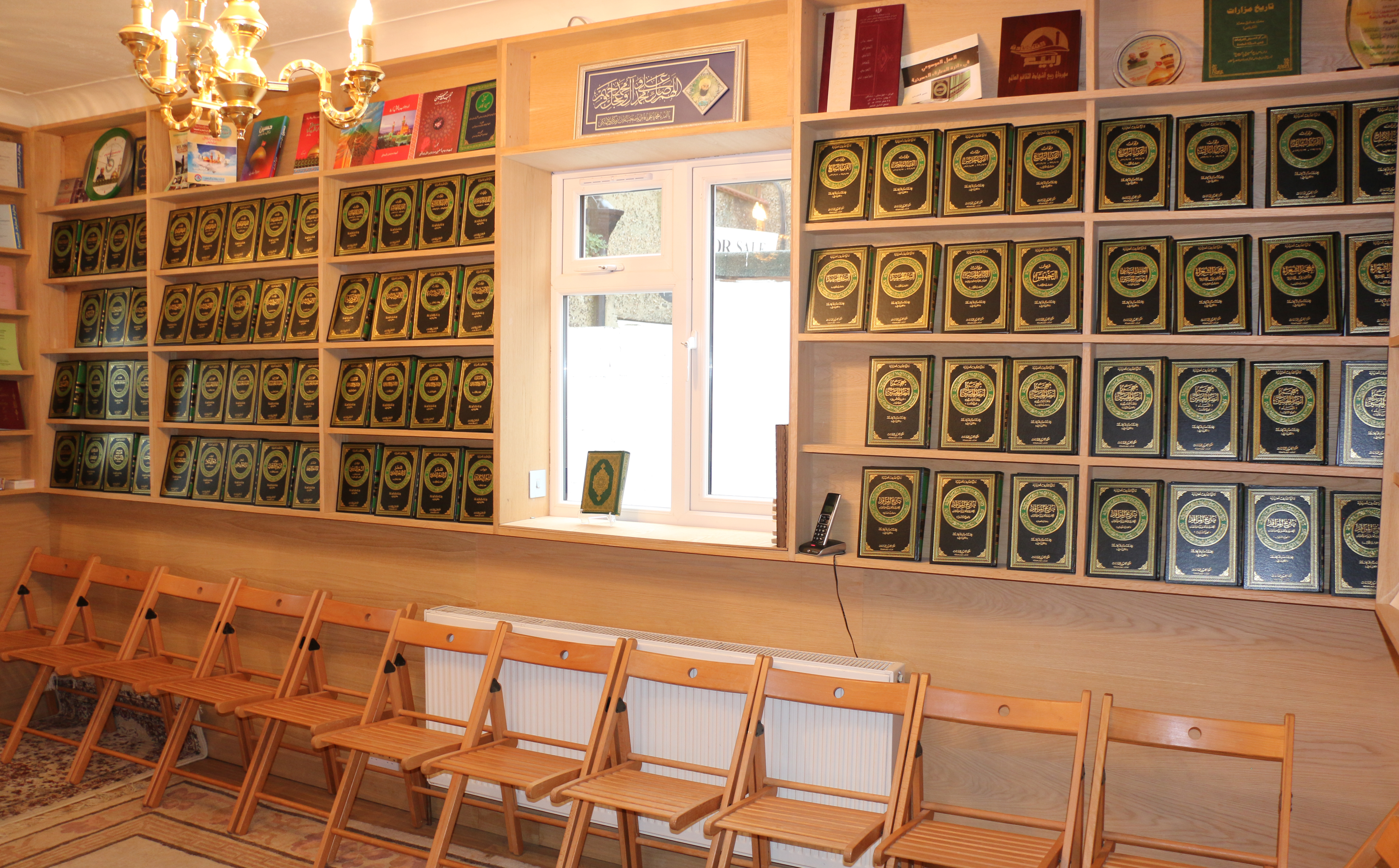 The Hussaini Centre for Research was established in London in 1993 (1414 H), Sheikh Mohammed Sadiq Mohammed Al-Karbassi used his home as the first base, and foundation for research as his office. There he welcomed politicians and journalists to his home. The centre has relocated to its current location in 2003. The Hussaini Centre Registered Charity in the UK. No: 1106596, under the title "The Hussaini Charitable Trust". The centre has a hall for general meetings, with rooms for studying, researching and translating texts. The centre receives many students looking to use its growing private library, which contains over 25,000 titles, specializing on topics of different scholars, with texts and archives in many languages. The centre stands alone when it comes to holding an entire specialized department containing handwritten and rare documents on different scientific and philosophical topics; the documents in this specialized department hold important historical and scientific value, some being hundreds of years old.